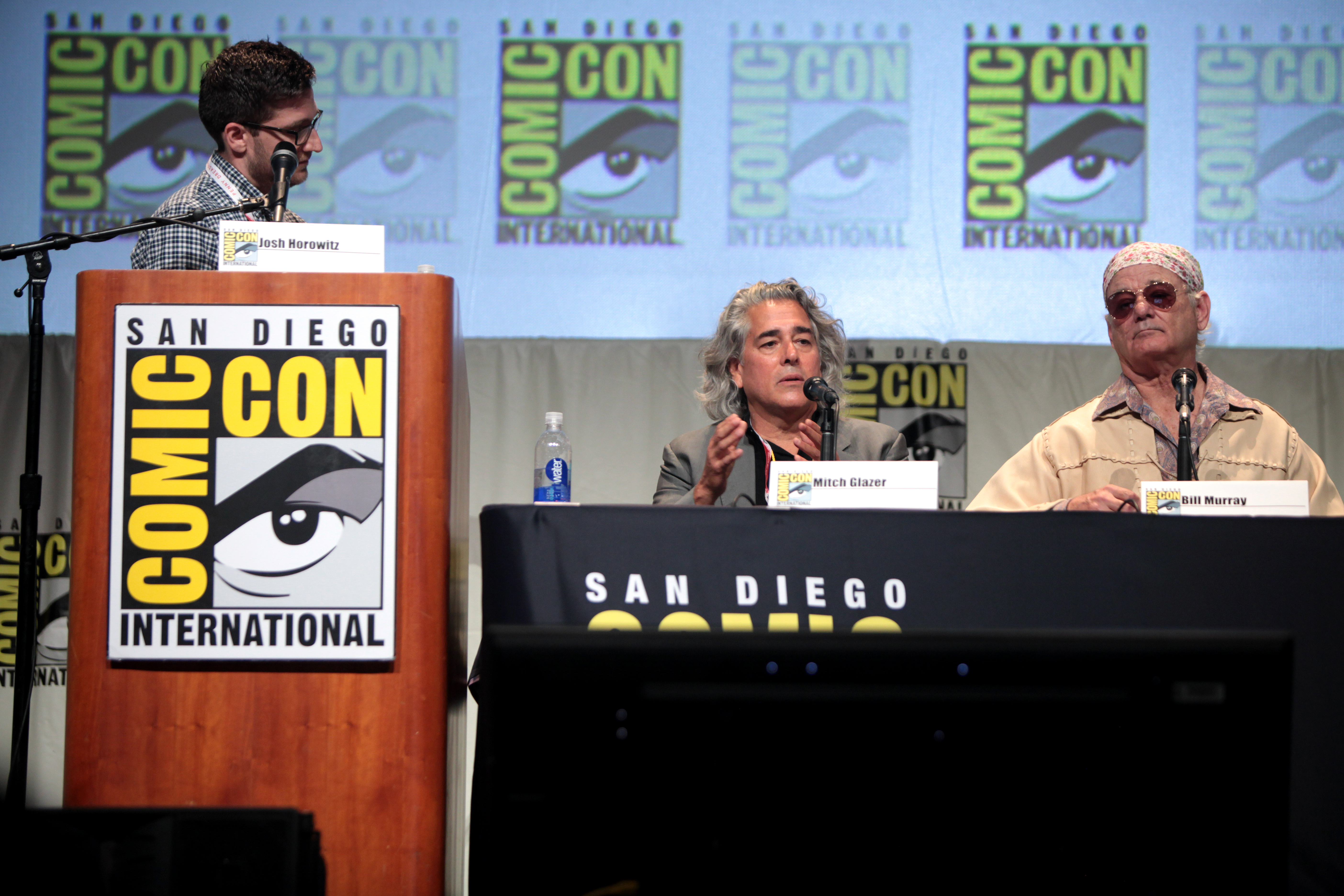 Josh Horowitz, Mitch Glazer and Bill Murray speaking at the 2015 San Diego Comic Con International, for "Rock the Kasbah", at the San Diego Convention Center in San Diego, California.